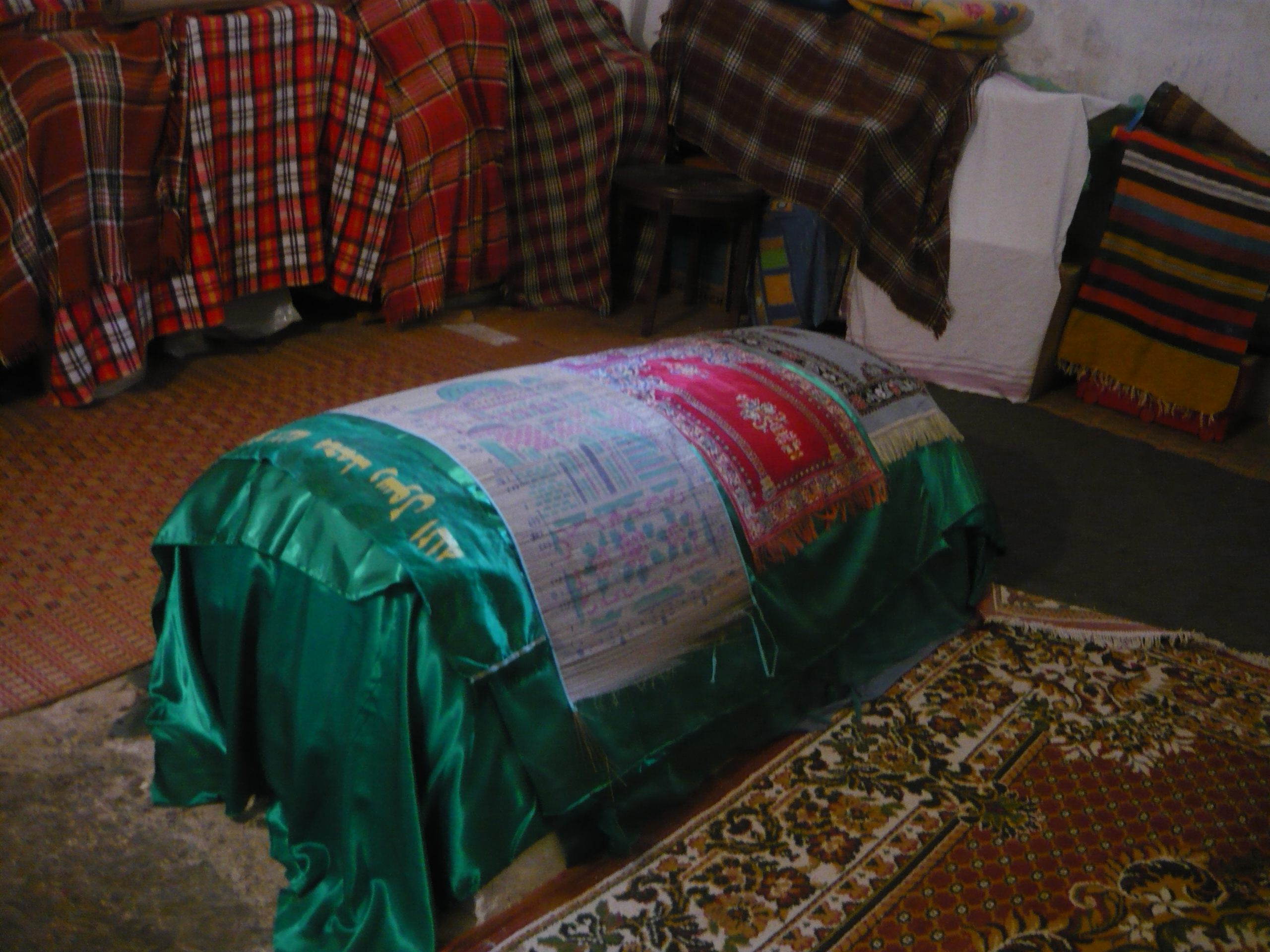 atabi's grave